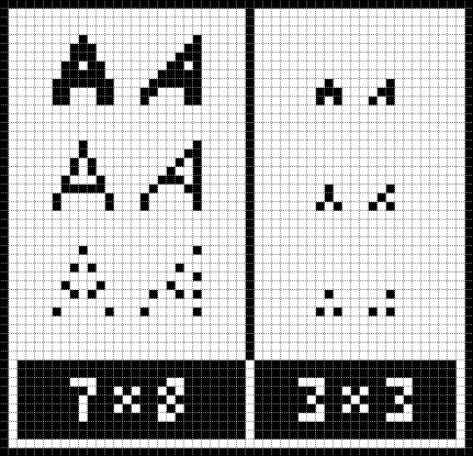 Low-resolution uppercase letter 'A', stylized as 3×3 and compared with 7×8 pixels (downscaled via a lossy compression by hand). Featuring 56-, 15- and 3-dot characters in usual matrices (orthogonal grids, not isometric here), which sizes are more or less common in the successive 8-bit fields of pixel art. By dpla, on 2018-03, from his related project (research, design and collection) of minimalist pixel fonts (in 1-bit mostly, US-ASCII hopefully).